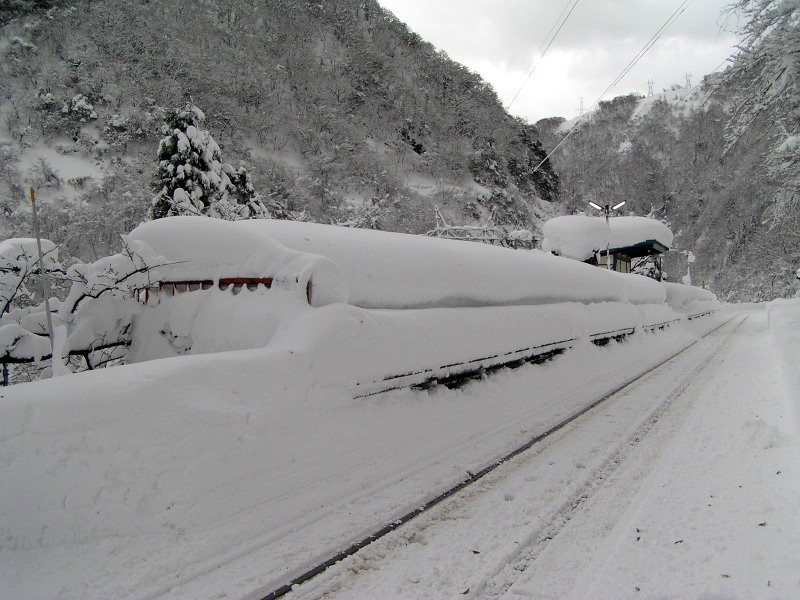 Hida-nakayama Station in winter